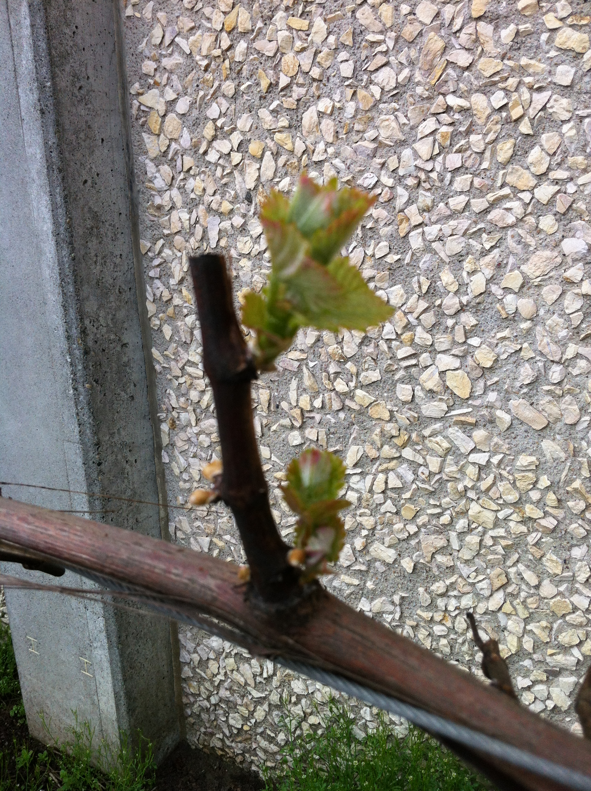 Gewürztraminer vine April 25th in the Puget Sound AVA of Western Washington State